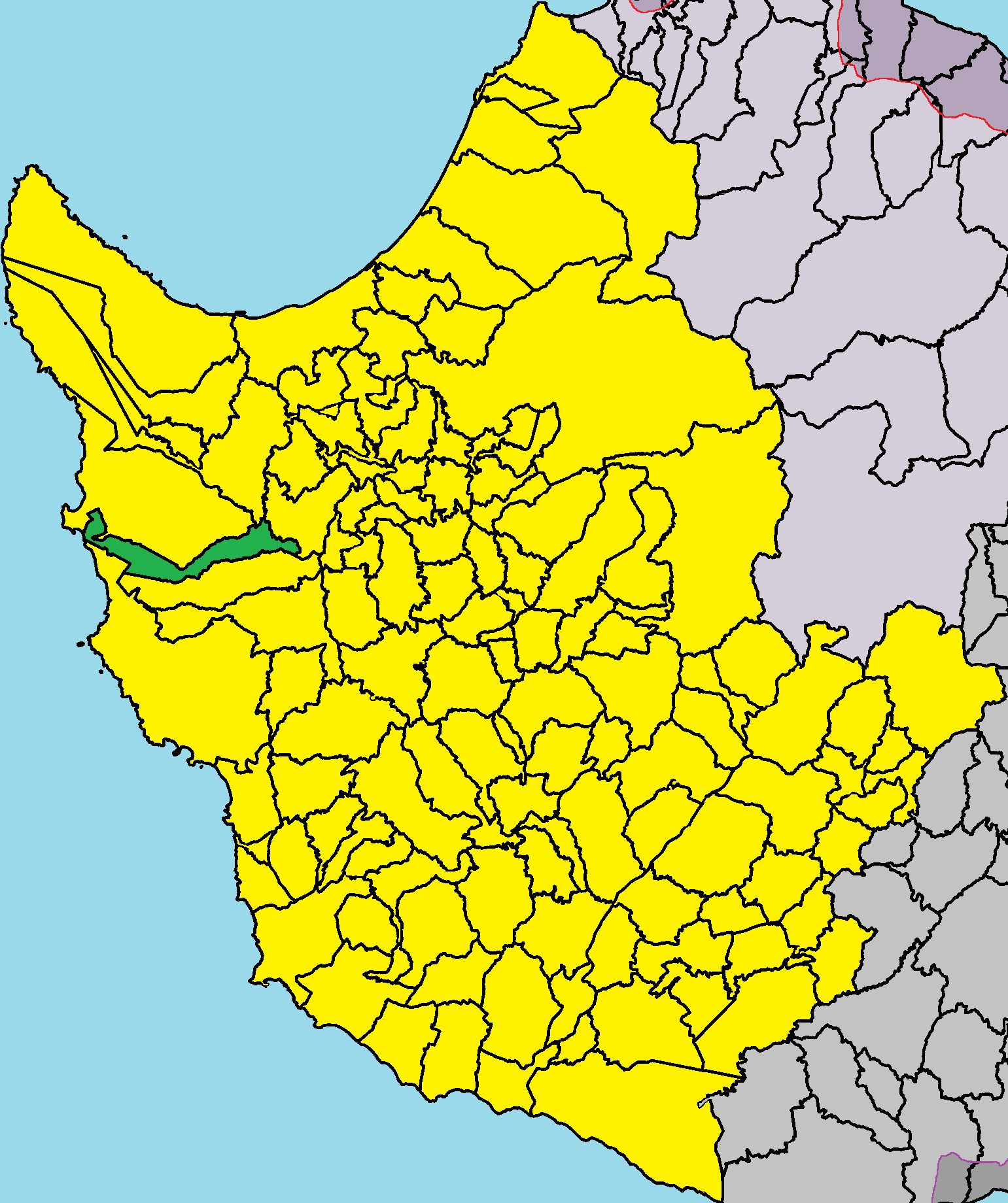 Kato Arodes in Paphos District.